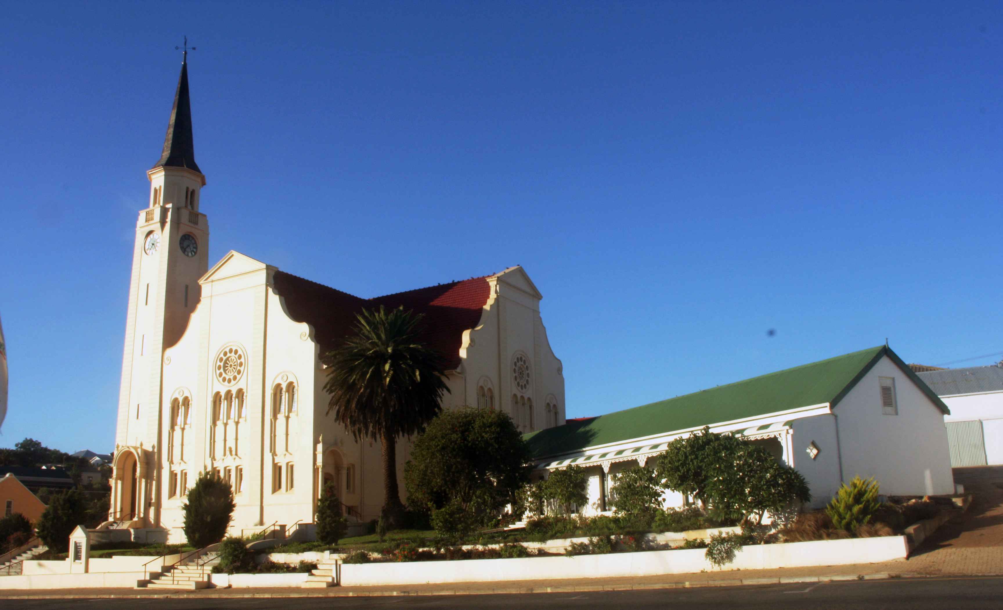 The NG Kerk (Dutch Reformed Church) in the town of Napier, Western Cape, South Africa This media shows a South African Protected Site with SAHRA file reference 9/2/013/0007.